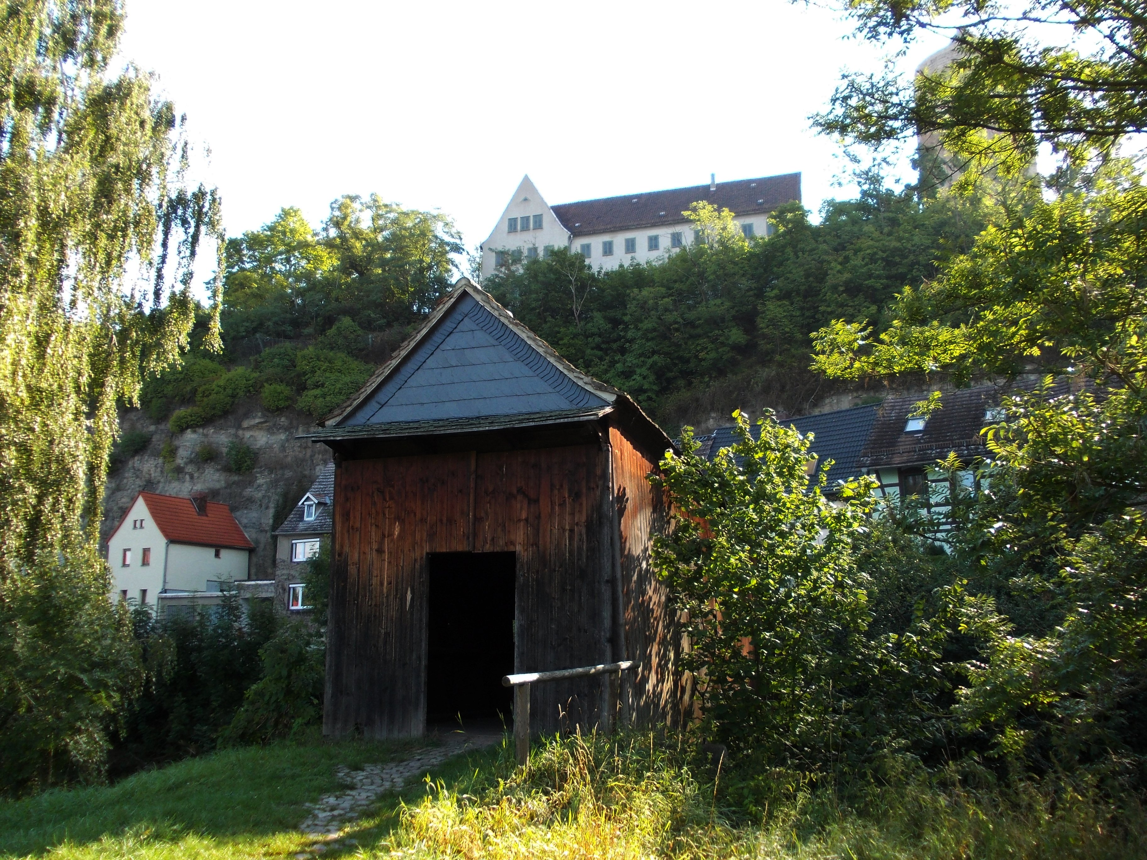 House bridge over a branch of the Saale river at Camburg (Dornburg-Camburg, district of Saale-Holzland-Kreis, Thuringia)